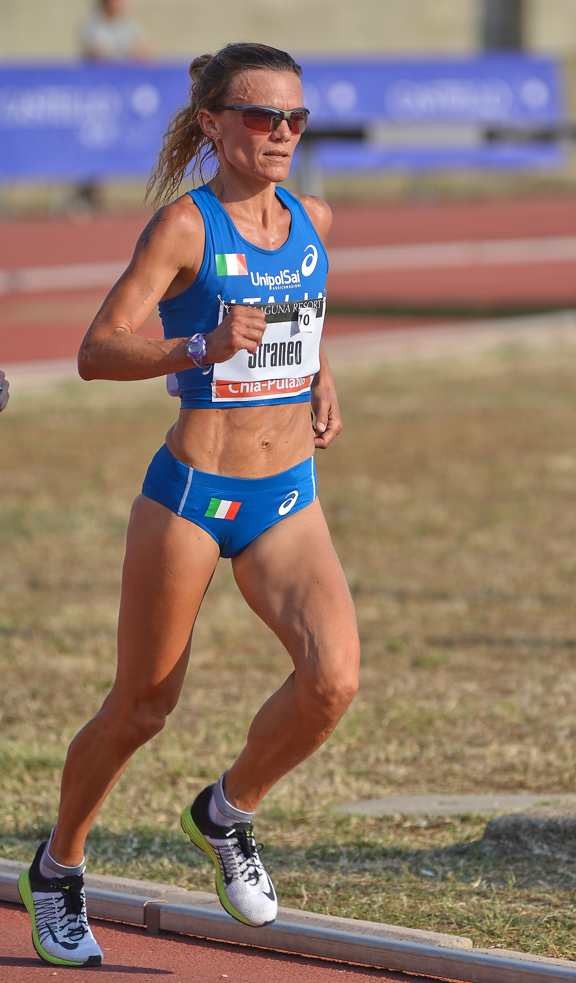 Valeria Straneo (2015), European Cup 10000 m - Cagliari